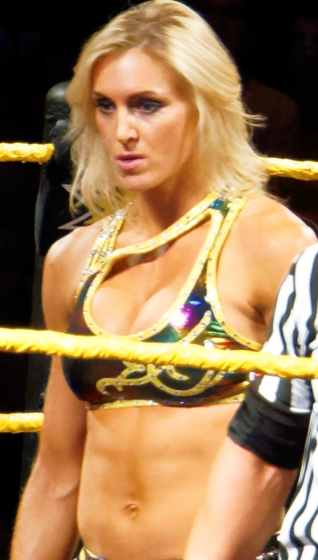 Charlotte at the 2015 WrestleMania Axxess in March 2015.